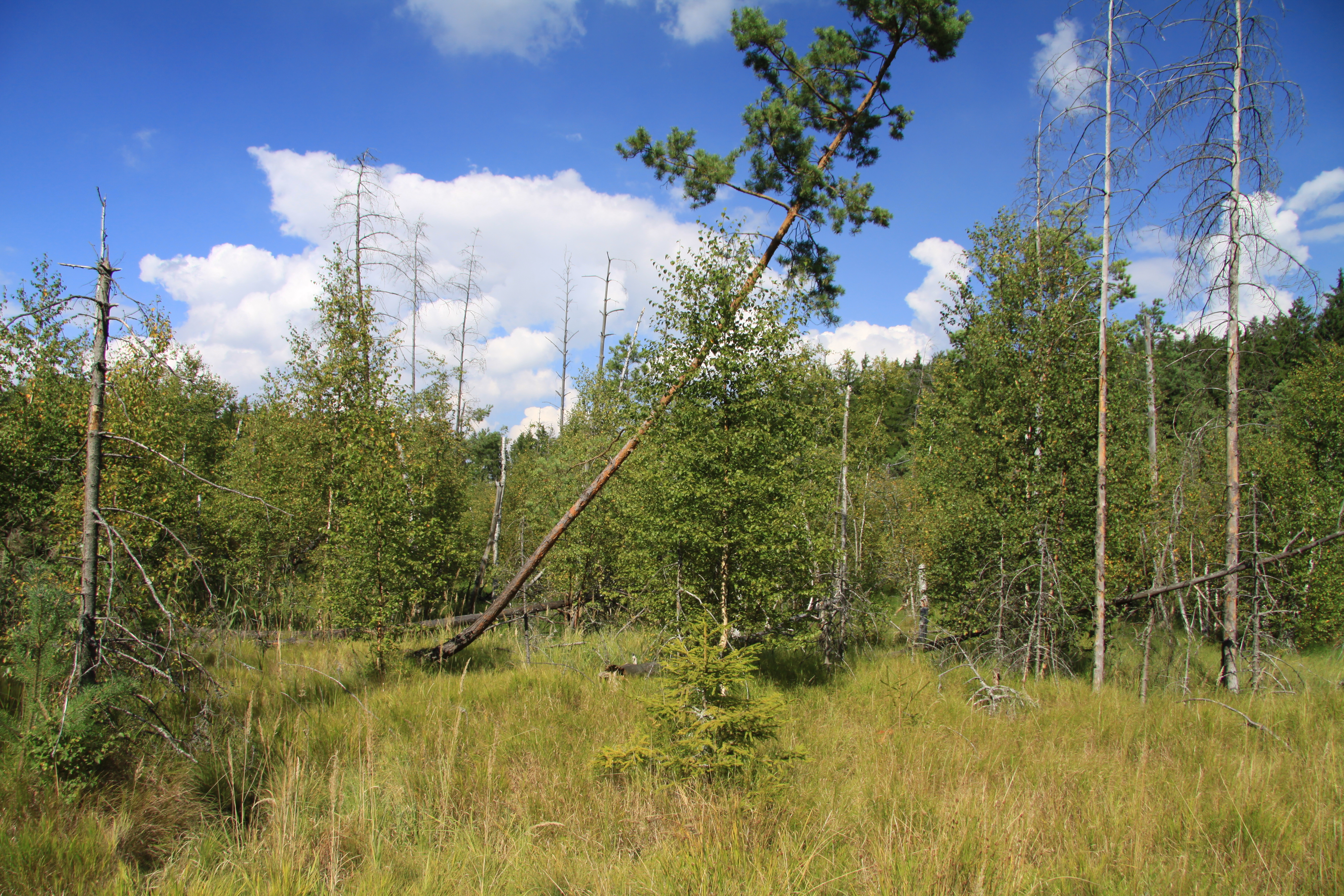 Natural monument Bachmač in Písek District, Czech Republic. This area is protected due to bog